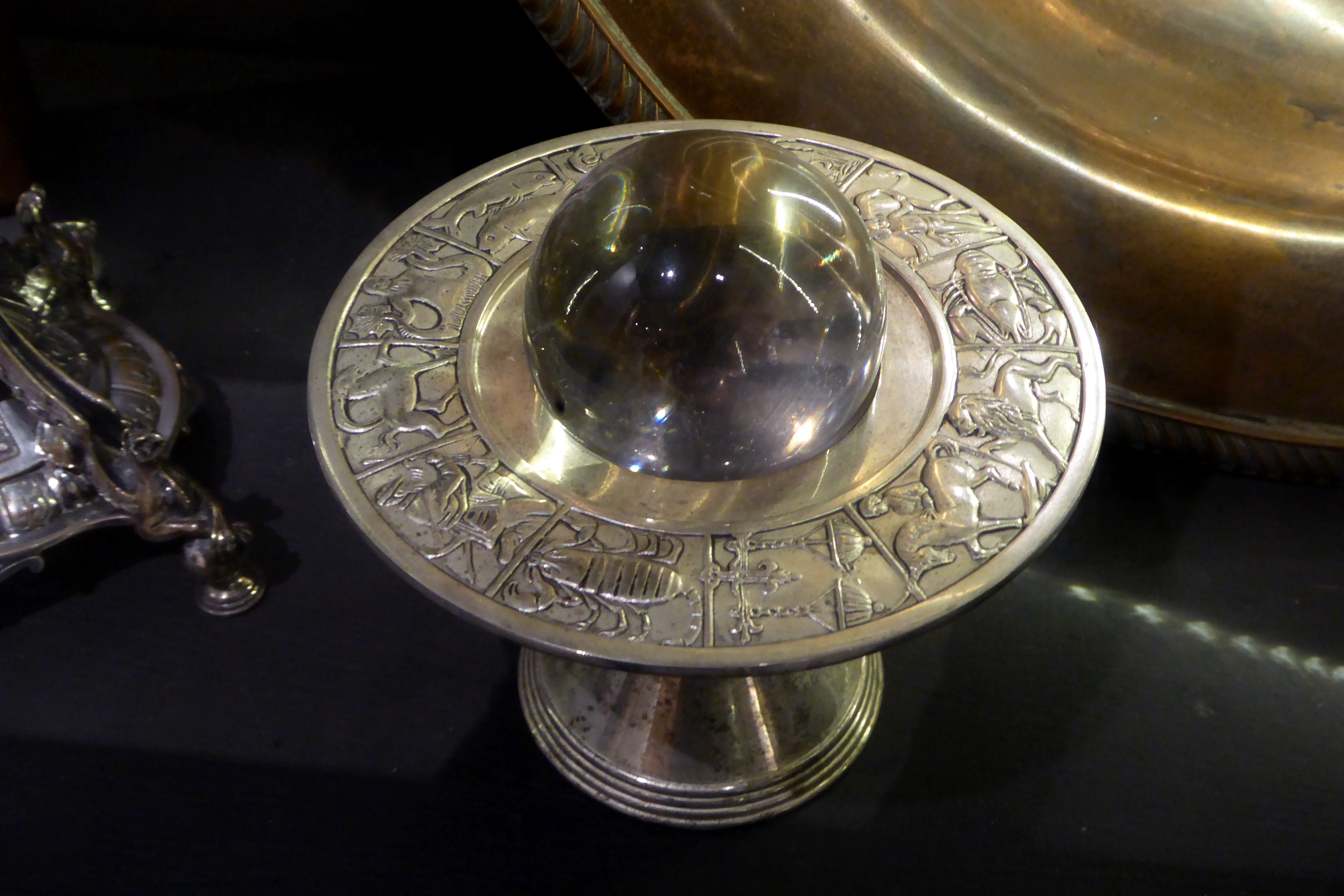 A crystal ball on a silver stand depicting the zodiac, found by a couple from Devon in their loft. On display in the Museum of Witchcraft and Magic in Boscastle, Cornwall.